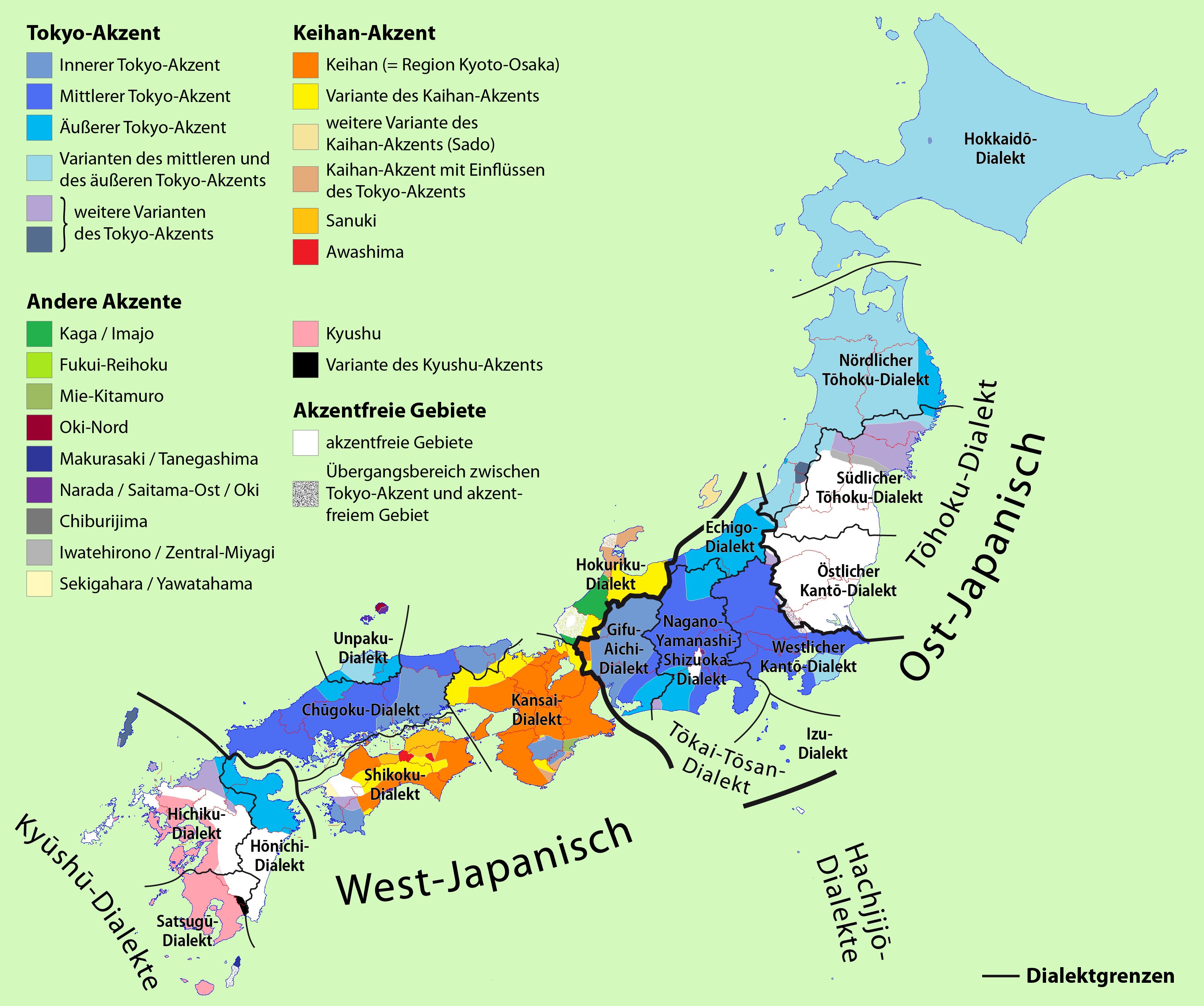 Map of the Japanese dialects and pitch accents